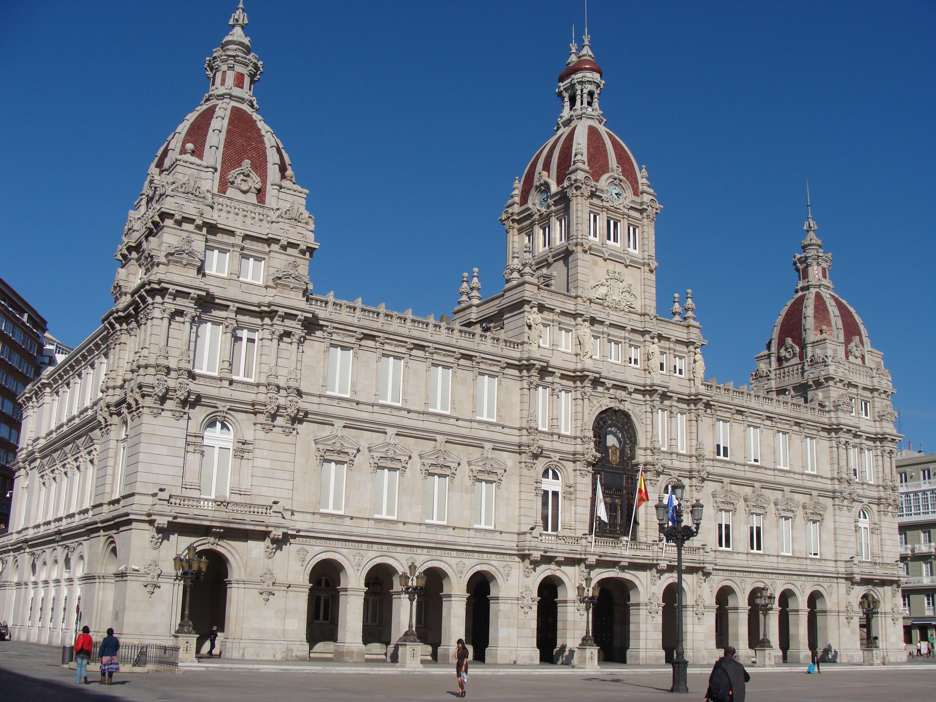 Townhall of Corunna, Galicia, Spain